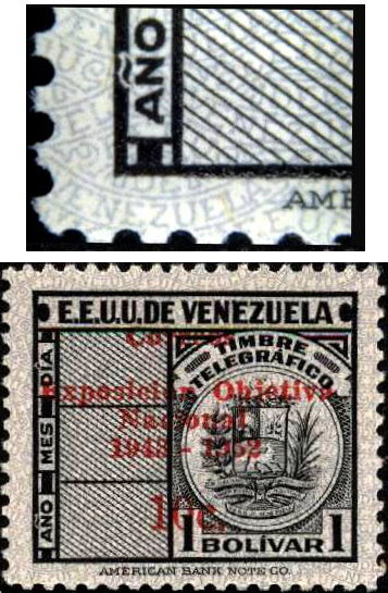 Venezuela 1952 1b Security paper magnified.